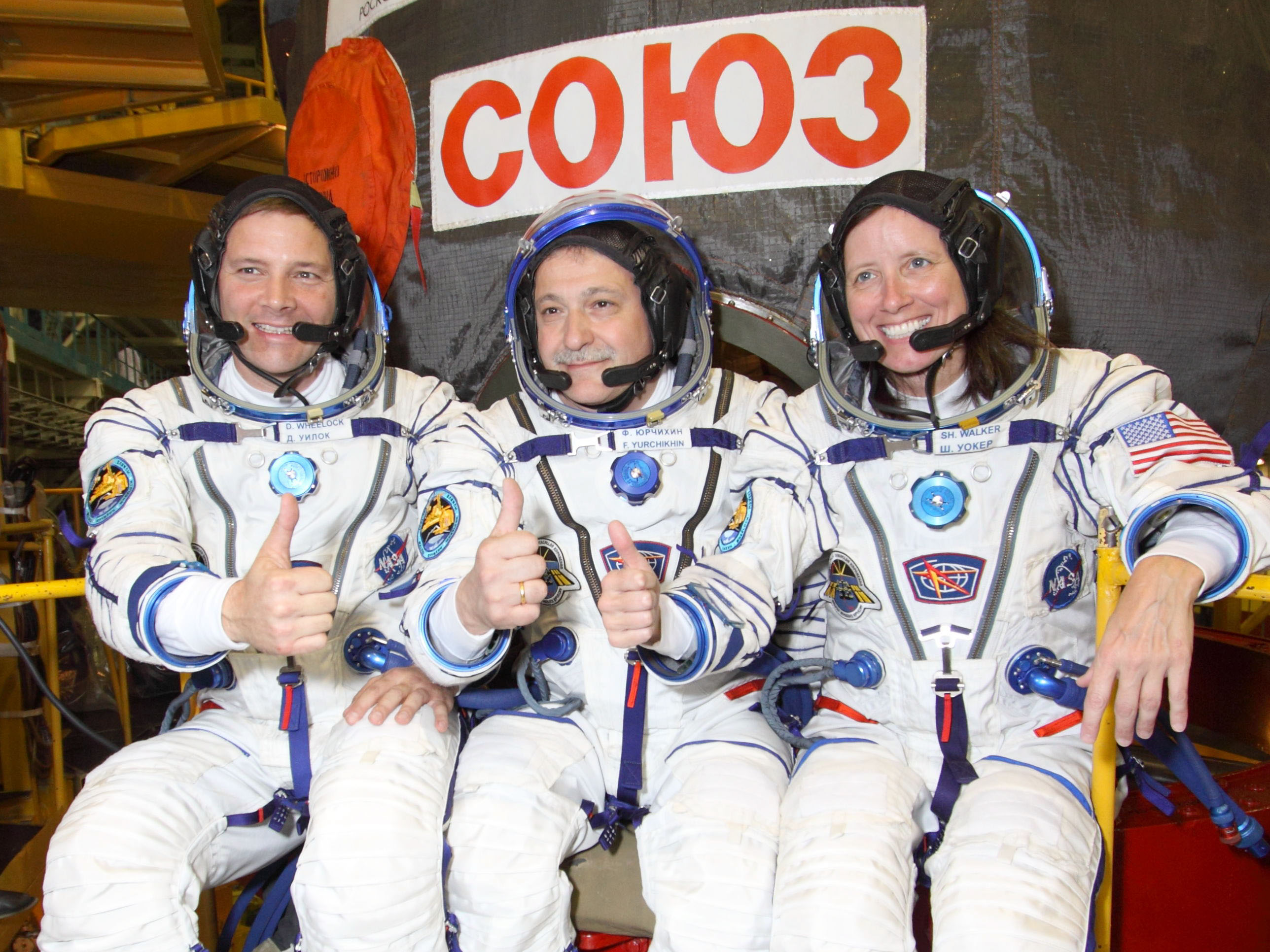 From left, NASA astronaut Doug Wheelock, Russian cosmonaut Fyodor Yurchikhin, and NASA astronaut Shannon Walker take a break from training and launch preparations for a portrait with their Soyuz TMA-19 spacecraft at the Baikonur Cosmodrome.